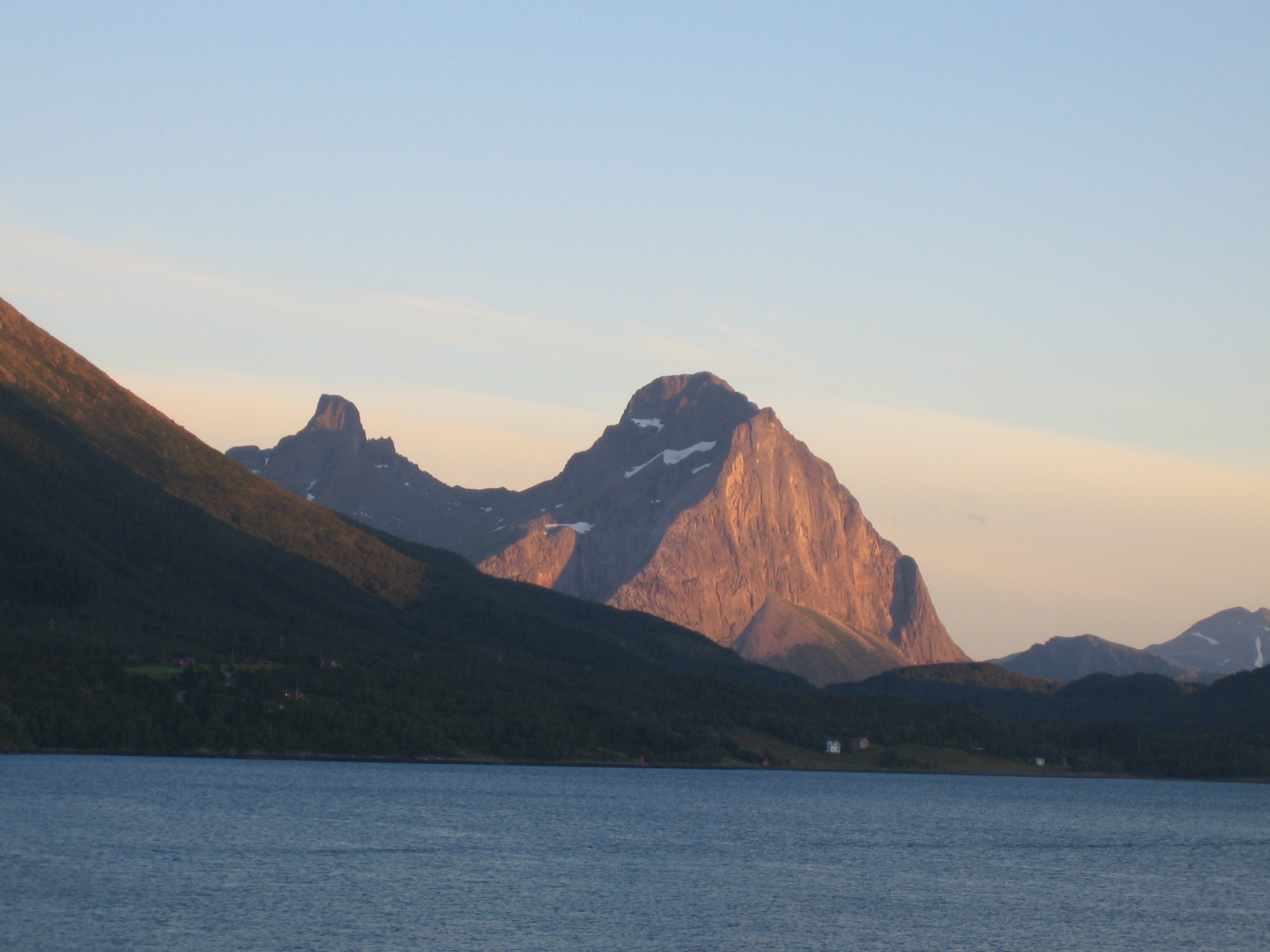 Blokktind (1032 m.o.h), Rødøy, Norway Photo: Bernt Marius Johnsen, 2005